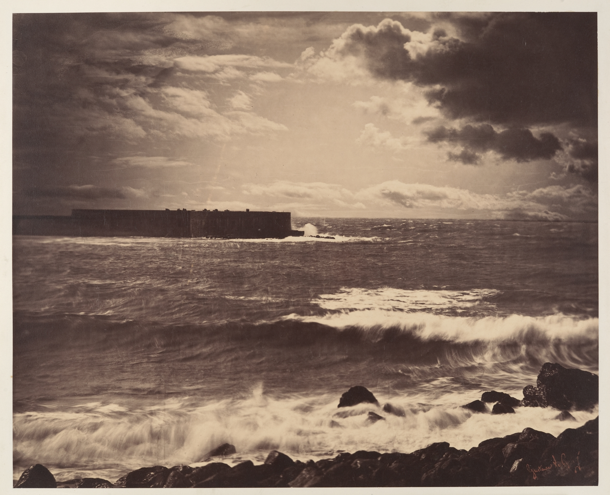 Gustave Le Gray (French, 1820–1884). The Great Wave, Sète, 1857. Albumen silver print from glass negative; 33.7 x 41.4 cm (13 1/4 x 16 5/16 in.)